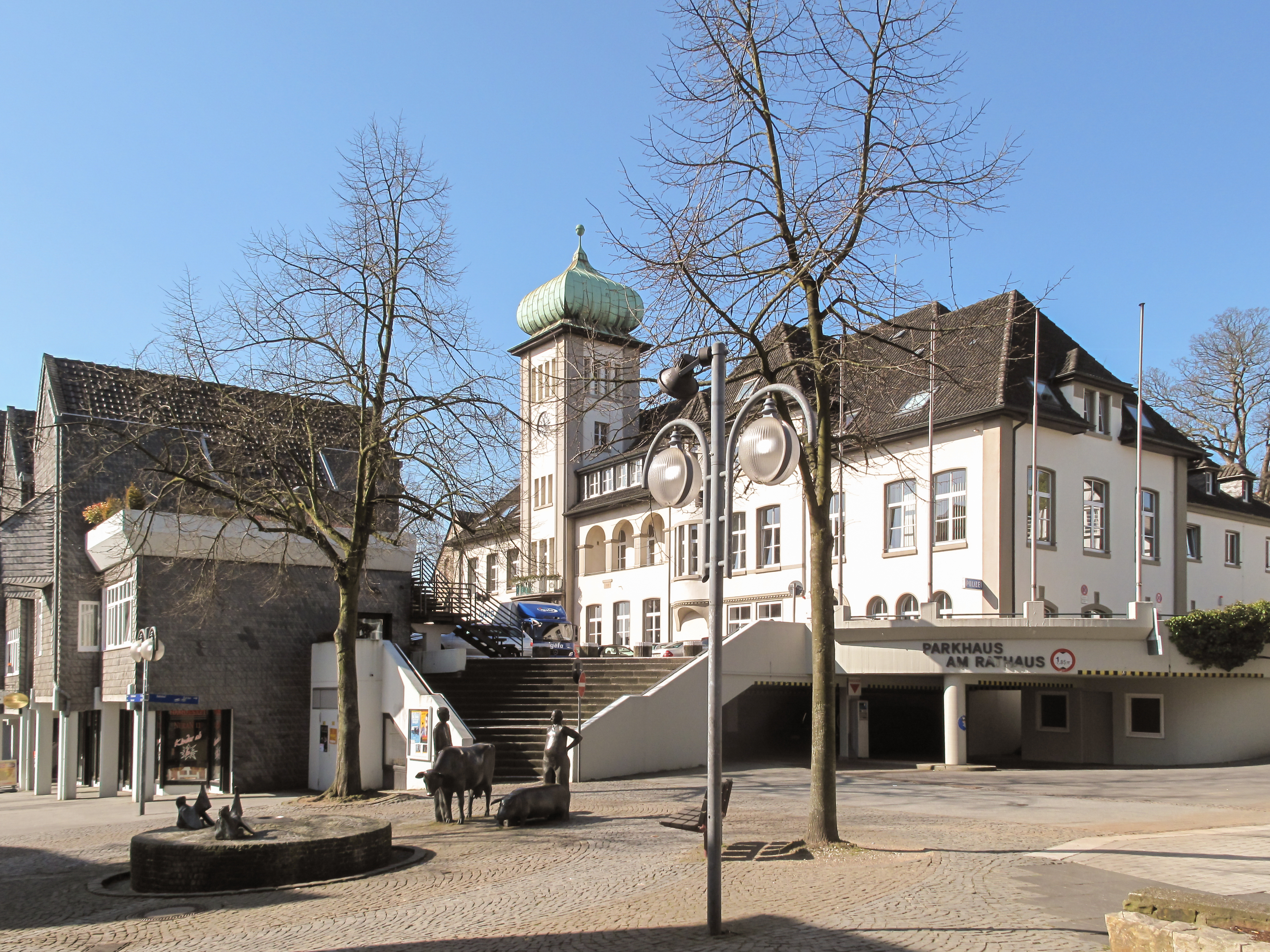 Herdecke, town hall